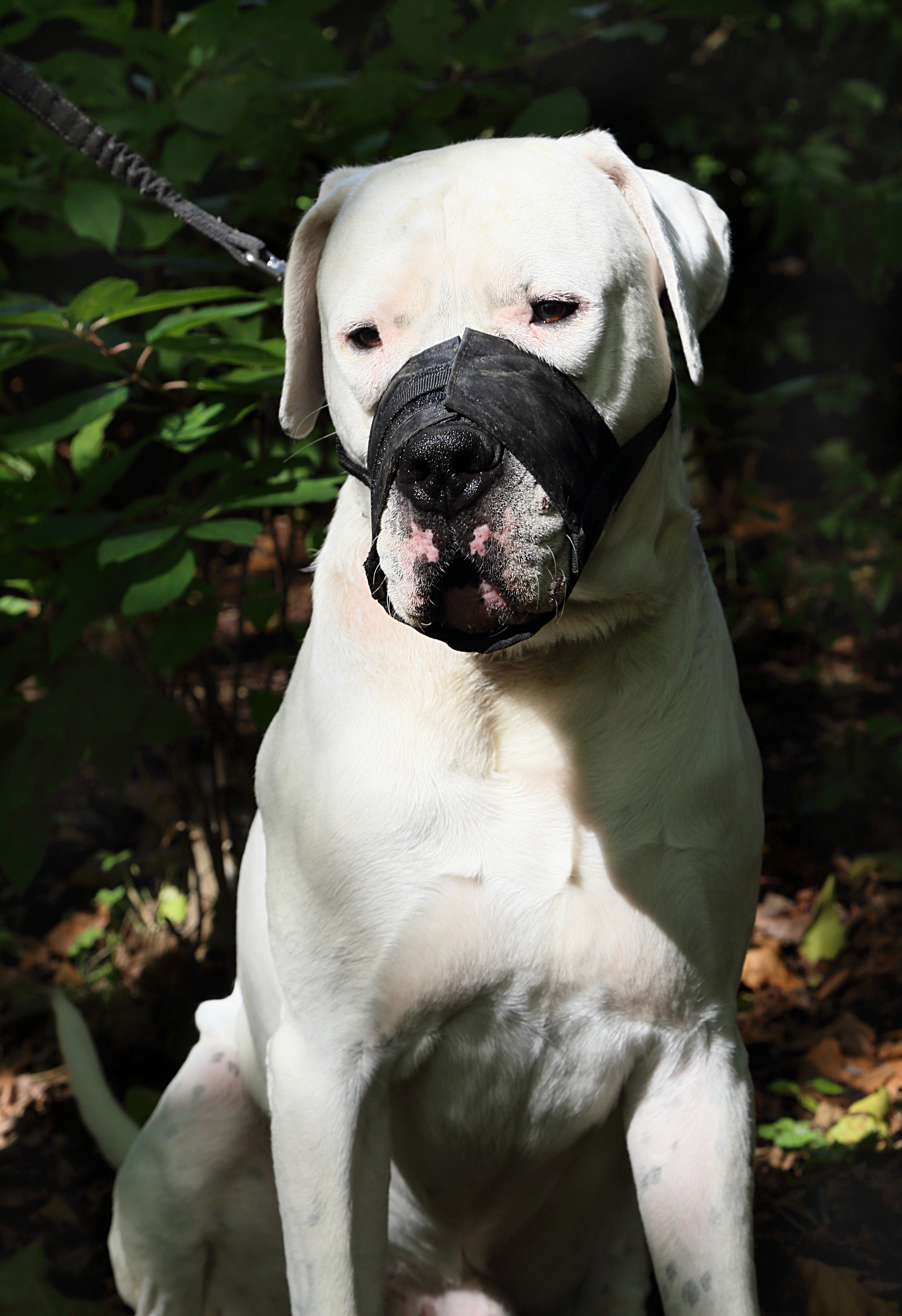 Dog with muzzle, picture taken in Belgium.